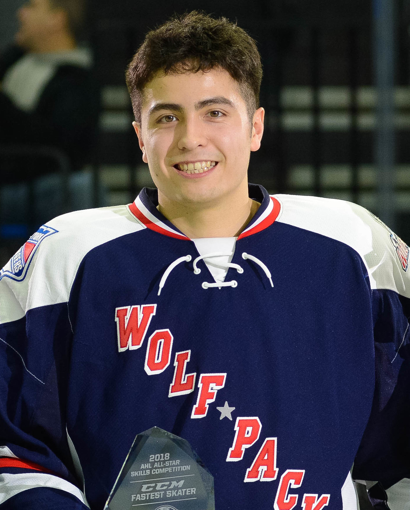 (Lindsay Mogle/ AHL)